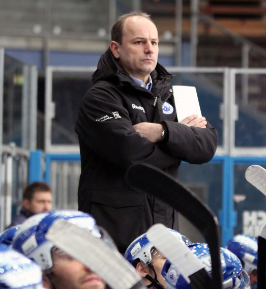 Toni Krinner